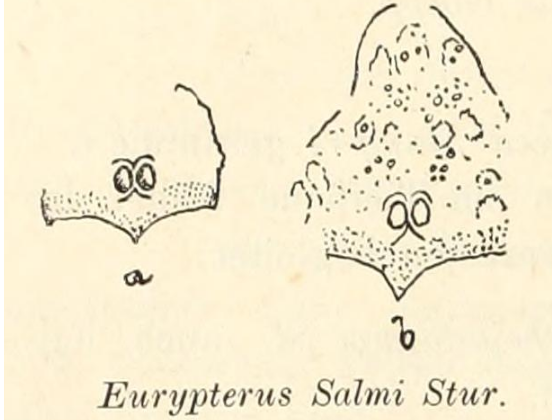 Restoration of the two carapaces used for the description of the eurypterid Campylocephalus salmi.